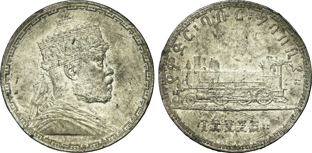 Jeton sur la thématique des chemins de fer éthiopiens. Description avers : Portrait de Ménélik II à droite au type du thaler .Description revers : Locomotive à vapeur allant à gauche . Cette ligne de chemin de fer a tellement marqué l’histoire de la région qu’un site internet qui lui est dédié : On y trouve d’ailleurs notre jeton mais sous la forme d’une médaille avec bélière dont il est d’ailleurs bien visible qu’elle est rajoutée.